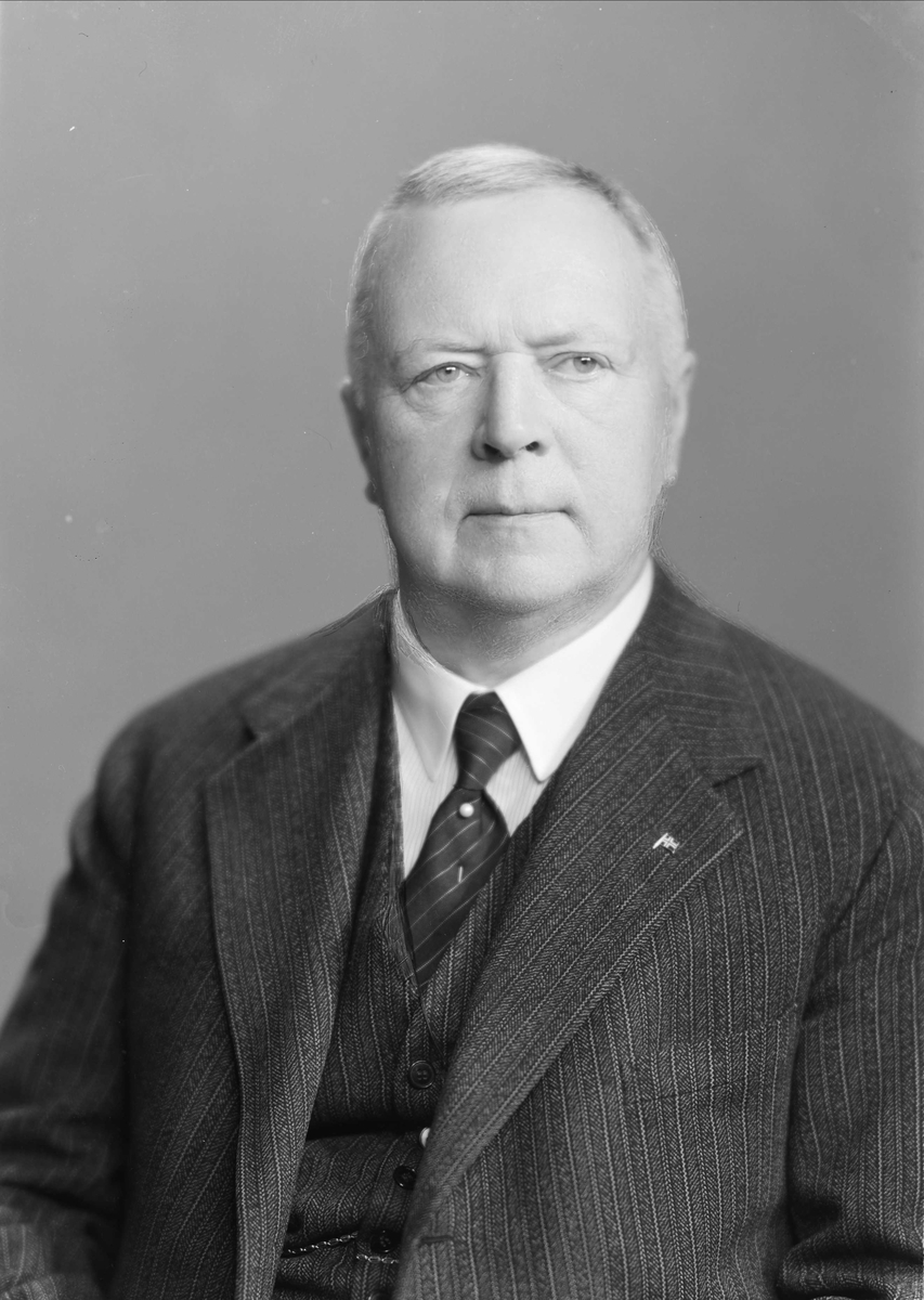 Johan Ludwig Mowinckel